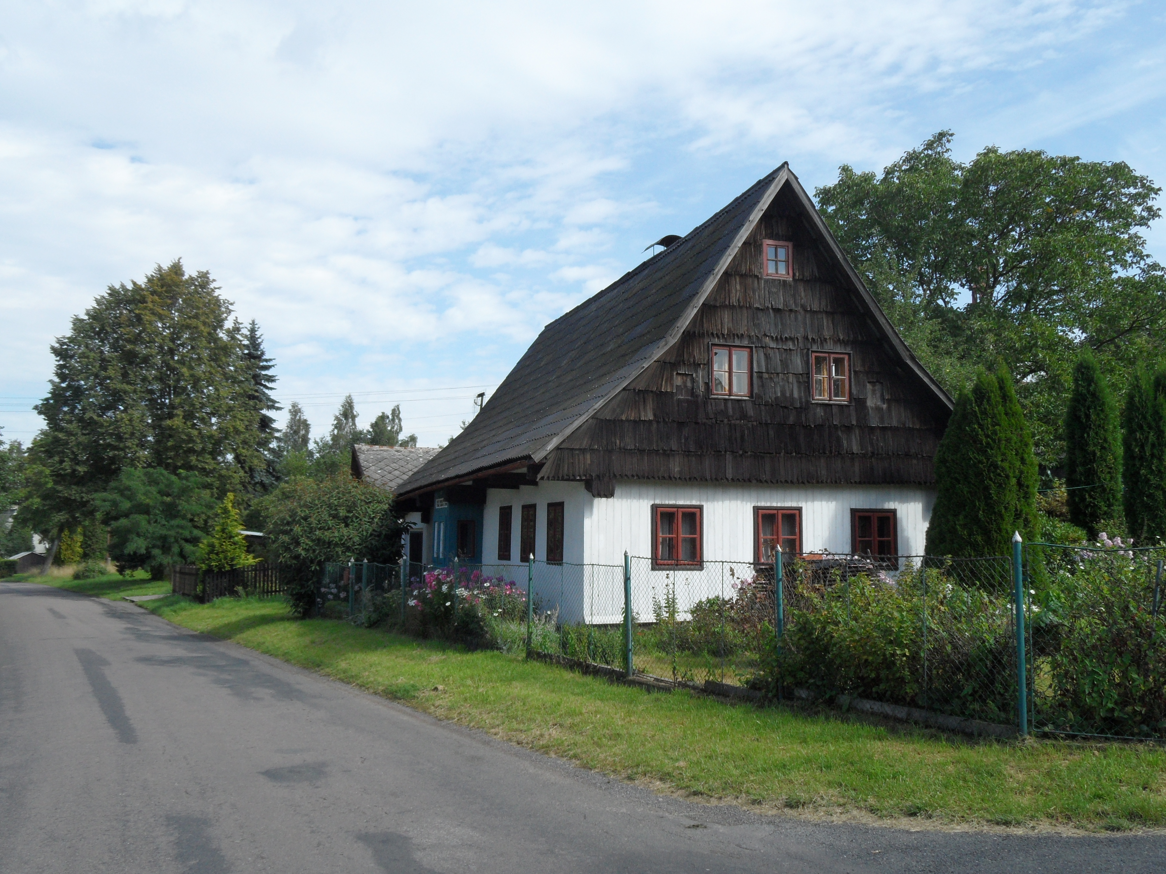 Dolní Boříkovice (Králíky) G. Cottage near Crossroads to Church, Ústí nad Orlicí District, the Czech Republic.